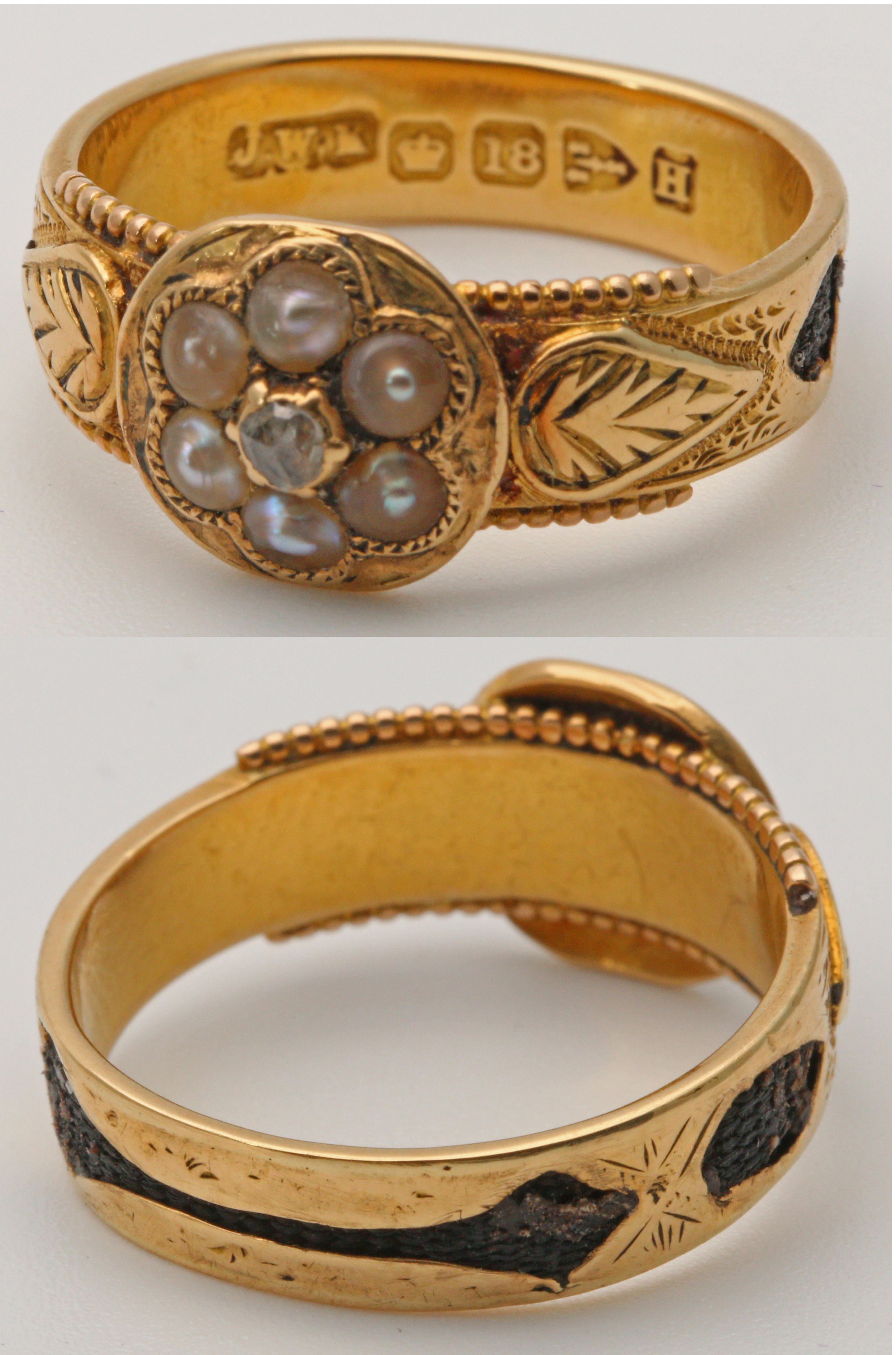 An 18ct gold mourning ring with old cut central diamond surrounded by six pearls. The ring has hair inserted into the gold. Chester 1891.